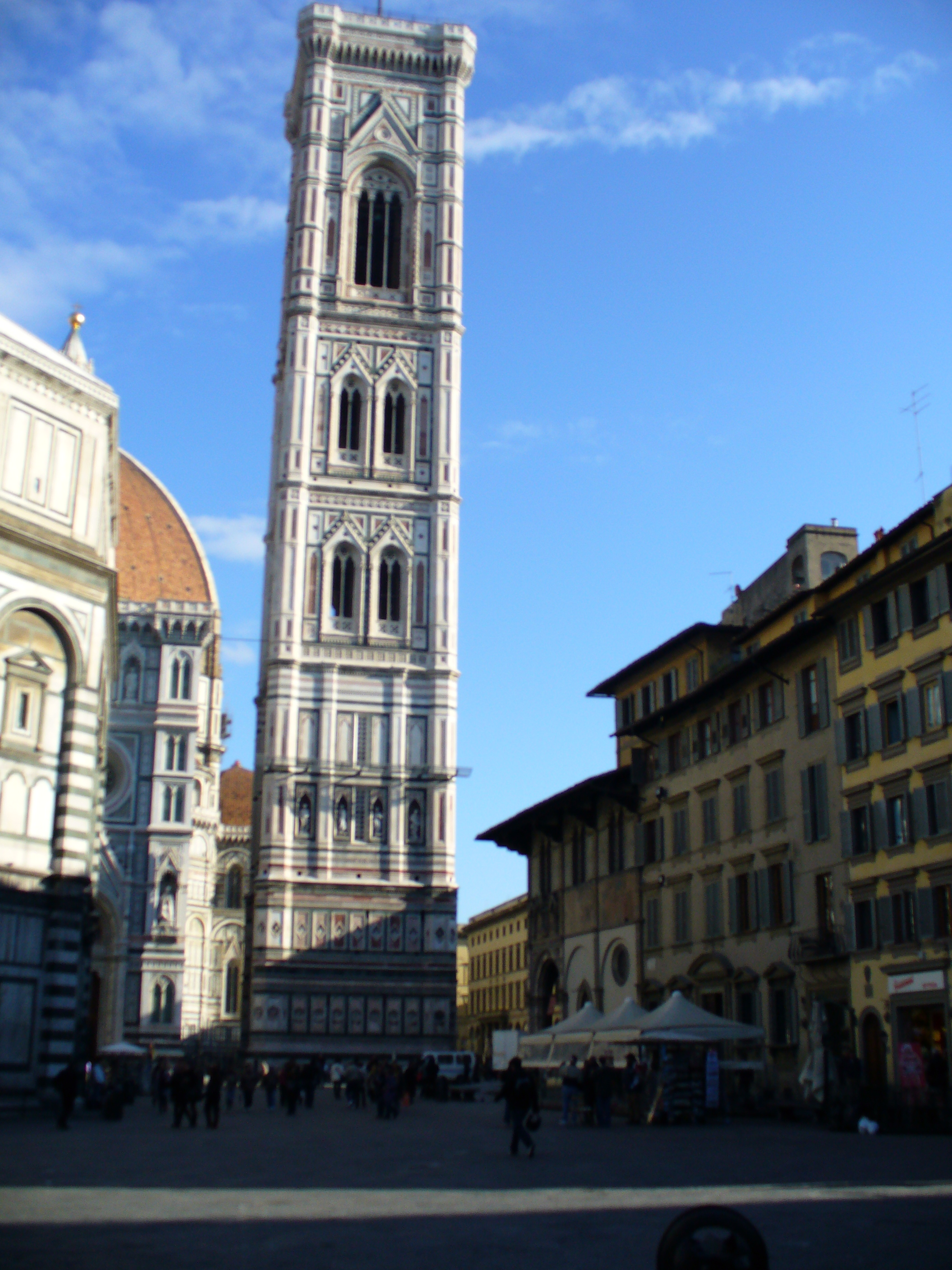 Exterior of Giotto's Bell Tower